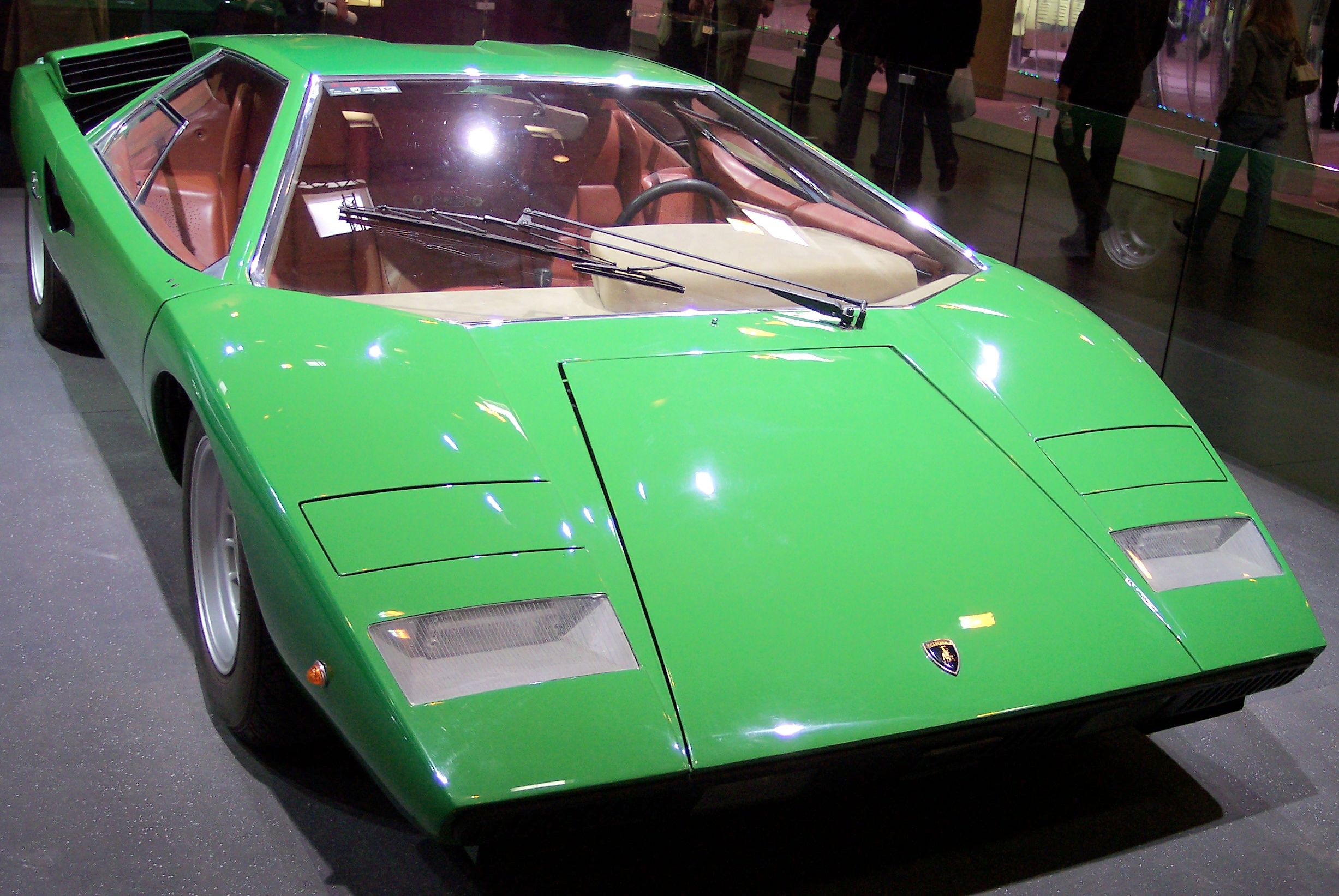 Lamborghini Countach